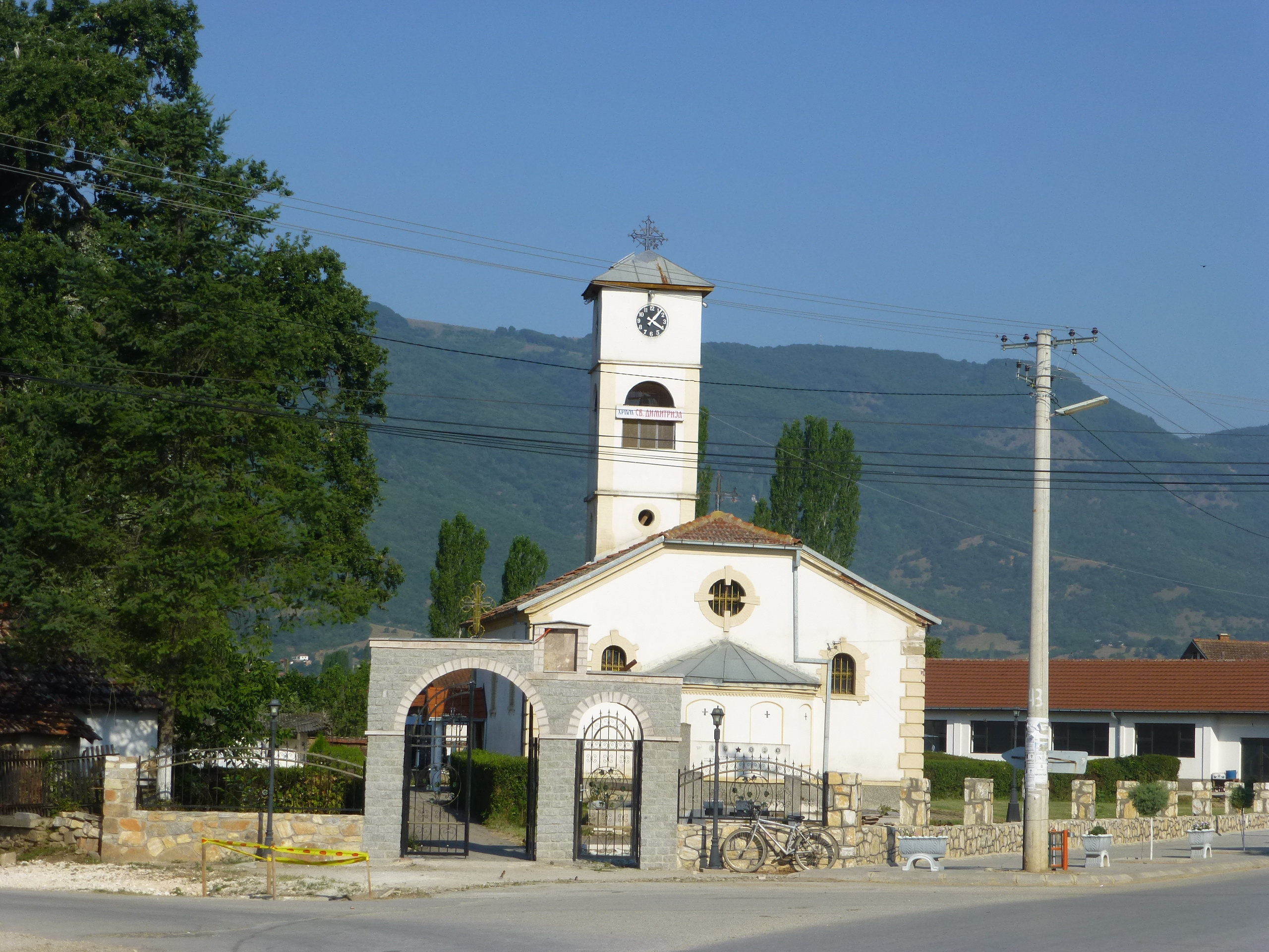 The village of Krivogashtani in Macedonia. Plenty of storchs nest there!